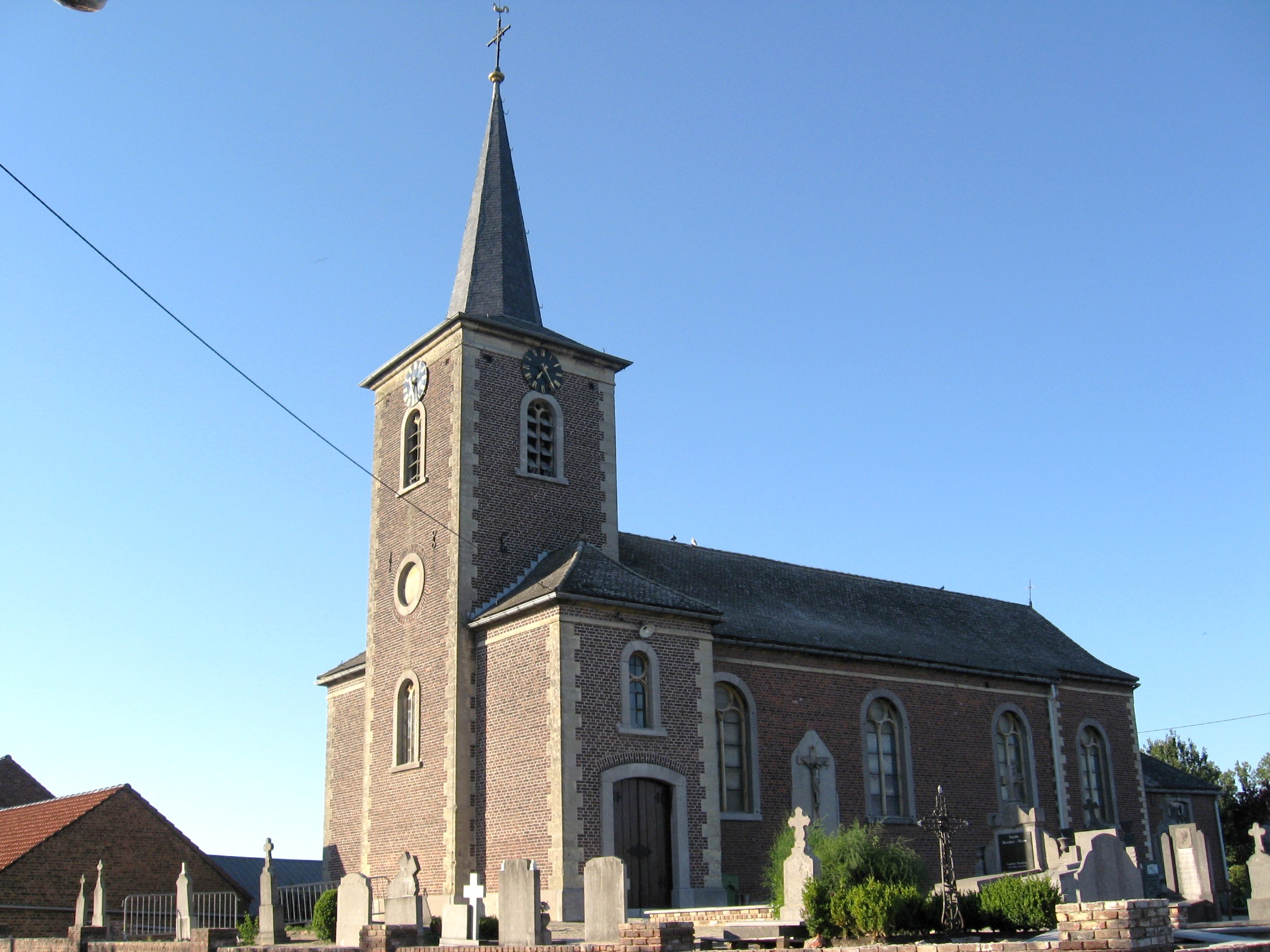 Church of Saint Domitianus in Werm, Hoeselt, Limburg, België